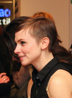 Kat Edmonson signing CDs in Freiburg, Germany